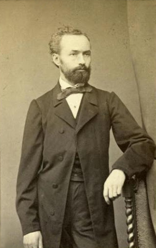 Iosif Hodoș as a member of the Hungarian Parliament (1869-1878)